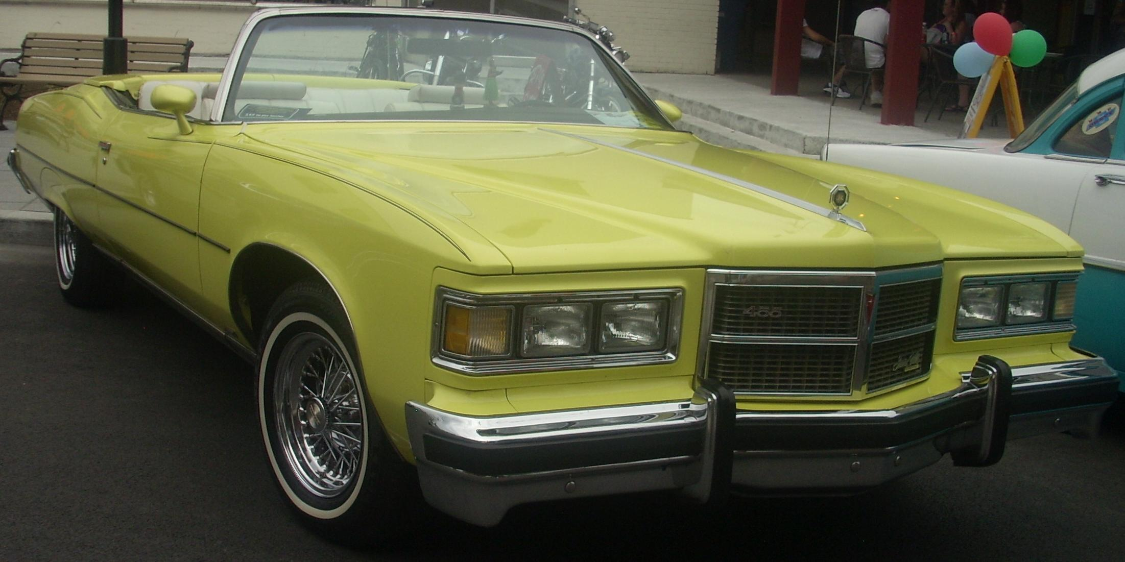 1975 Pontiac Grand Ville photographed in Ste. Anne De Bellevue, Quebec, Canada at Cruisin' At The Boardwalk 2010.